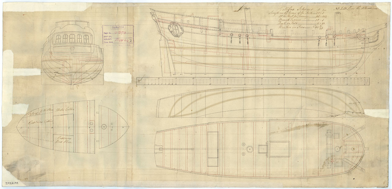 A plan showing the body plan with stern board detail, modified sheer lines with inboard detail, longitudinal half-breadth, deck plan, and fore and aft platforms for Halifax (1768), a purchased American-built 6-gun Schooner.